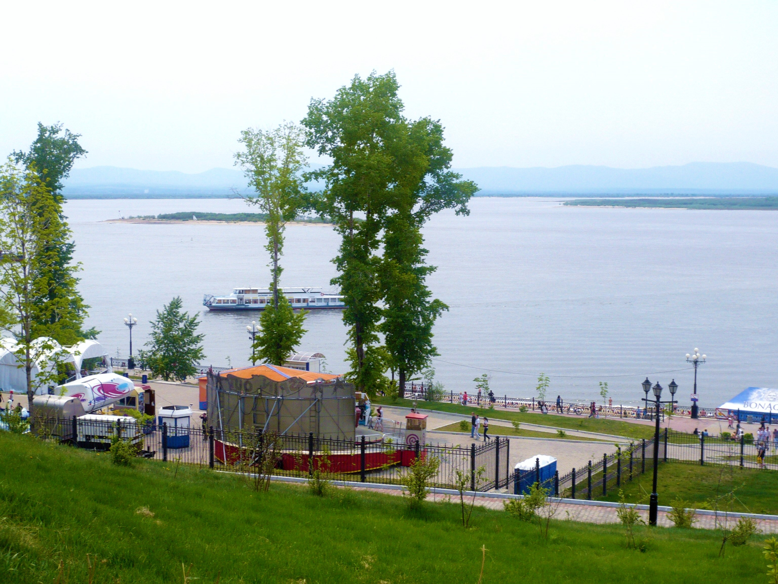 Amur River in Khabarovsk